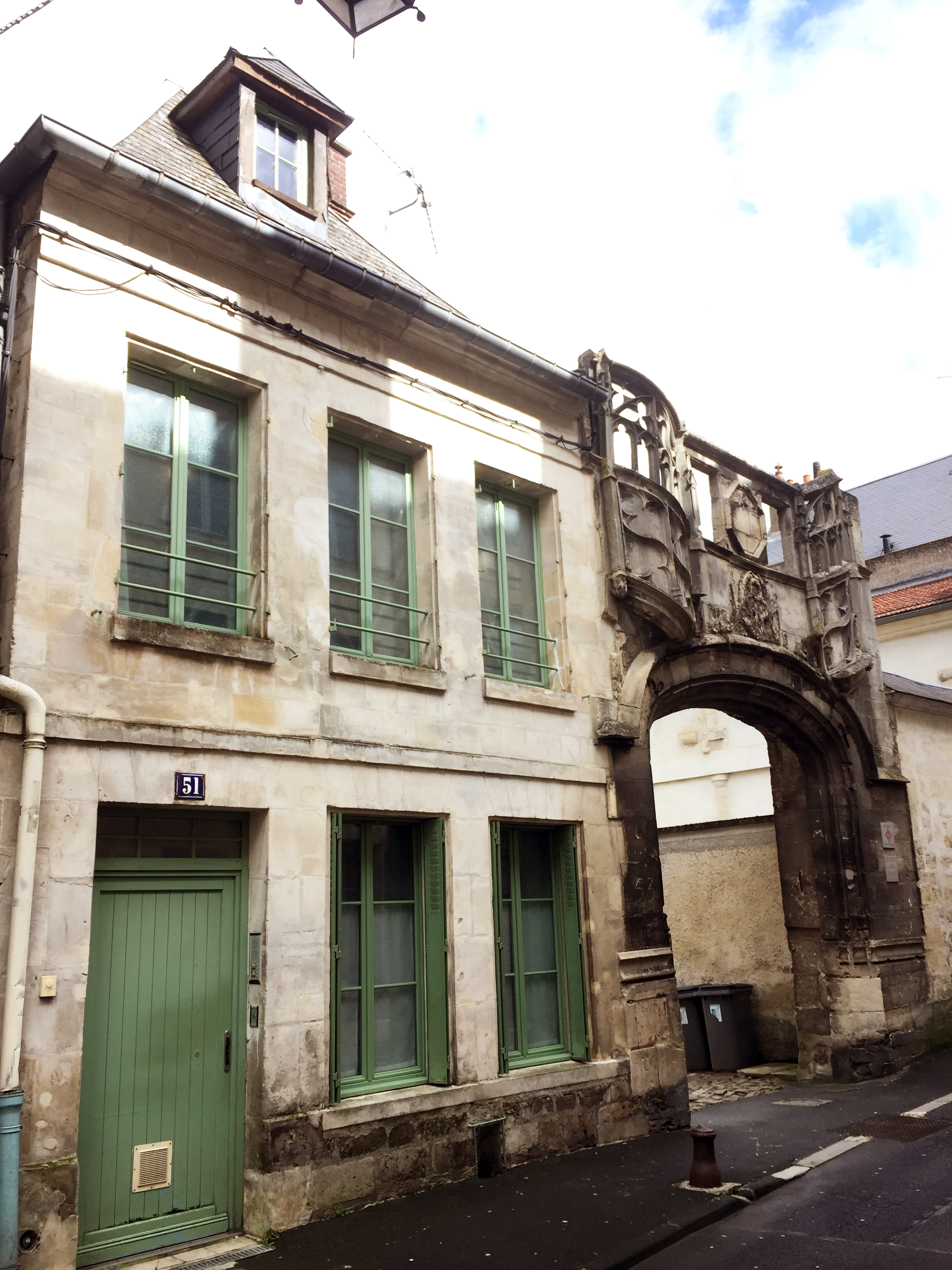 Gate of Bouvelle Court, Rue Serurier, Laon (France, XV)